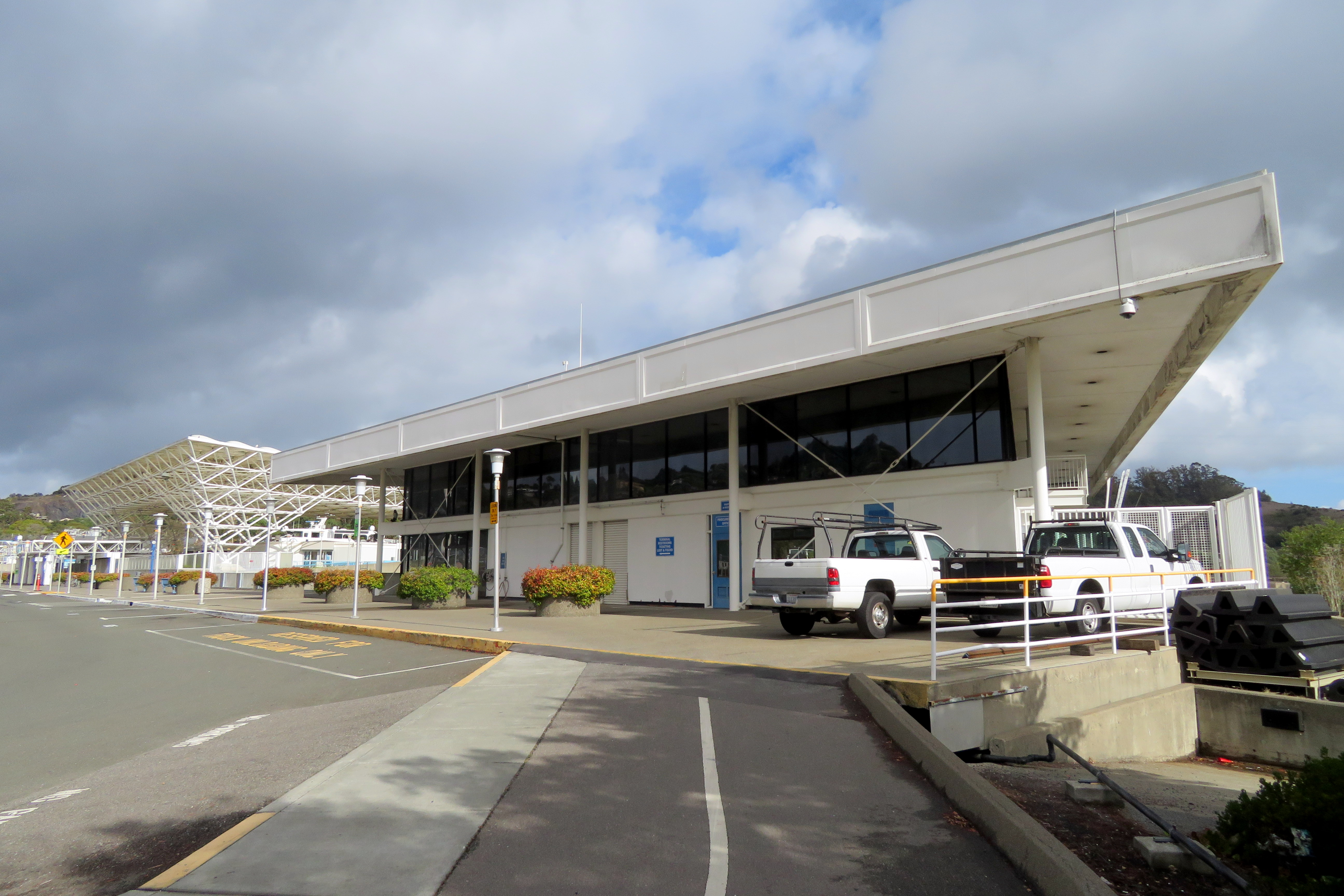 Administration building at Larkspur Landing in November 2018